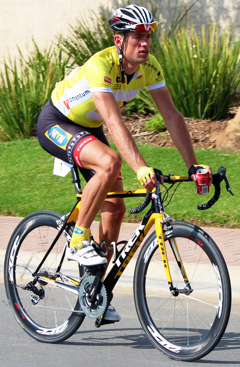 South African cyclist Arran Brown after the 2012 Momentum 94.7 Cycle Challenge, in which he placed third.